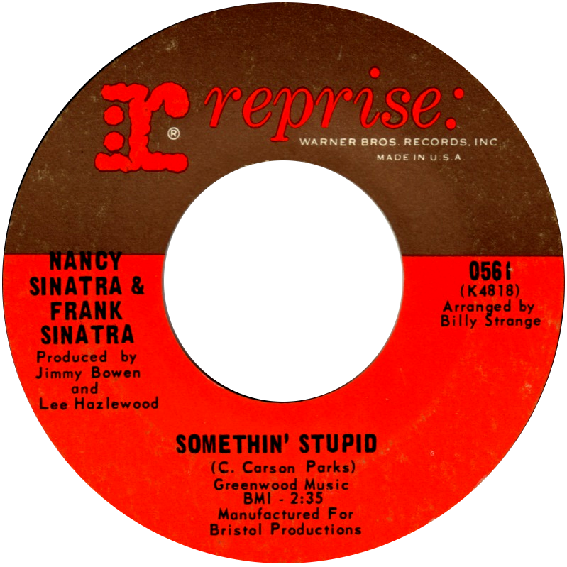 "Somethin' Stupid" by Frank and Nancy Sinatra; US vinyl single